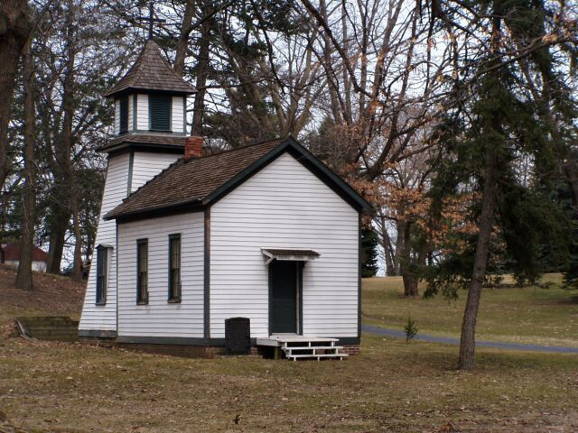 The old Swedish Lutheran Church and latter the Skola, School.